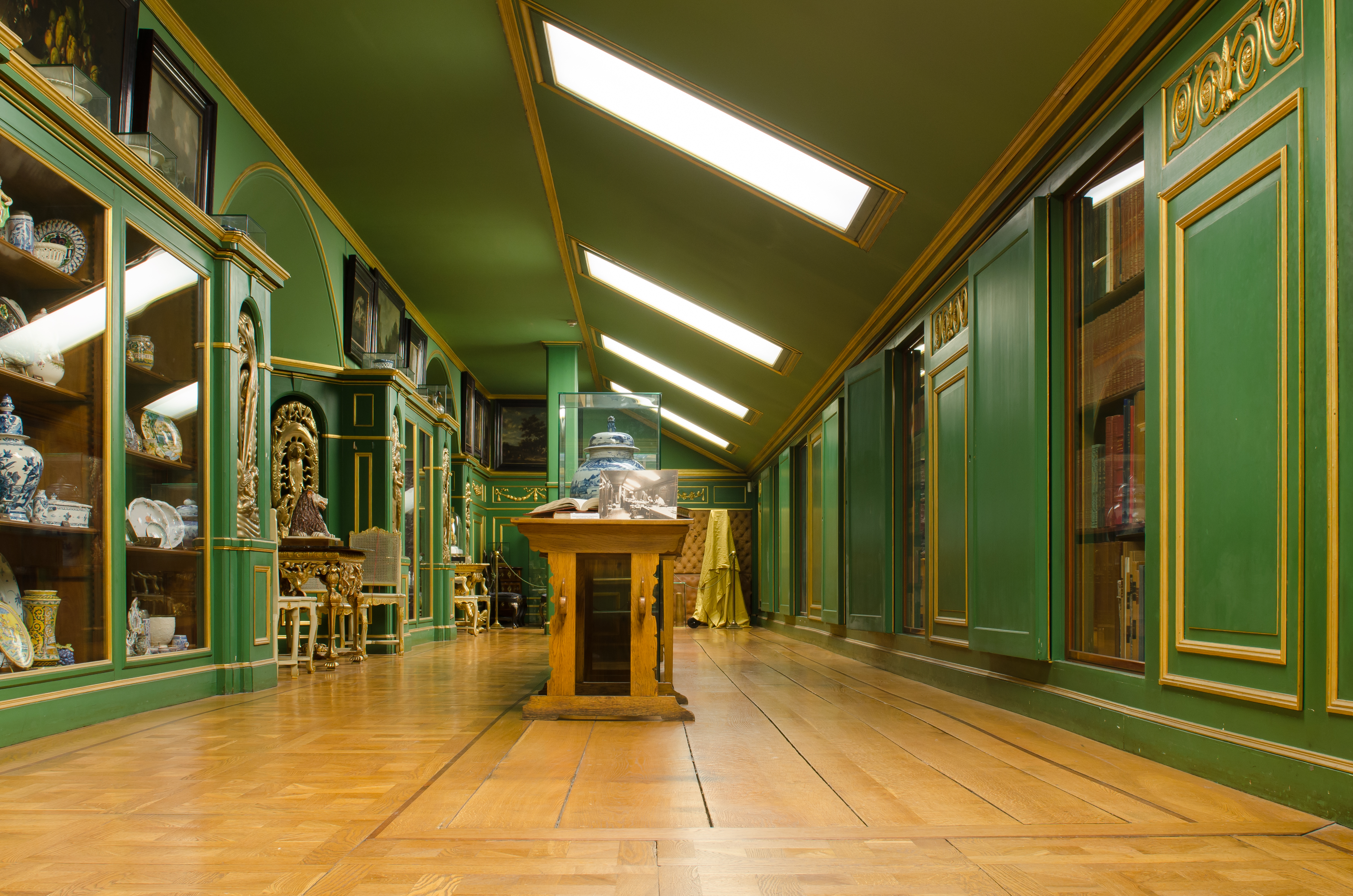 Kägelbanan, Hallwylska Palatset.